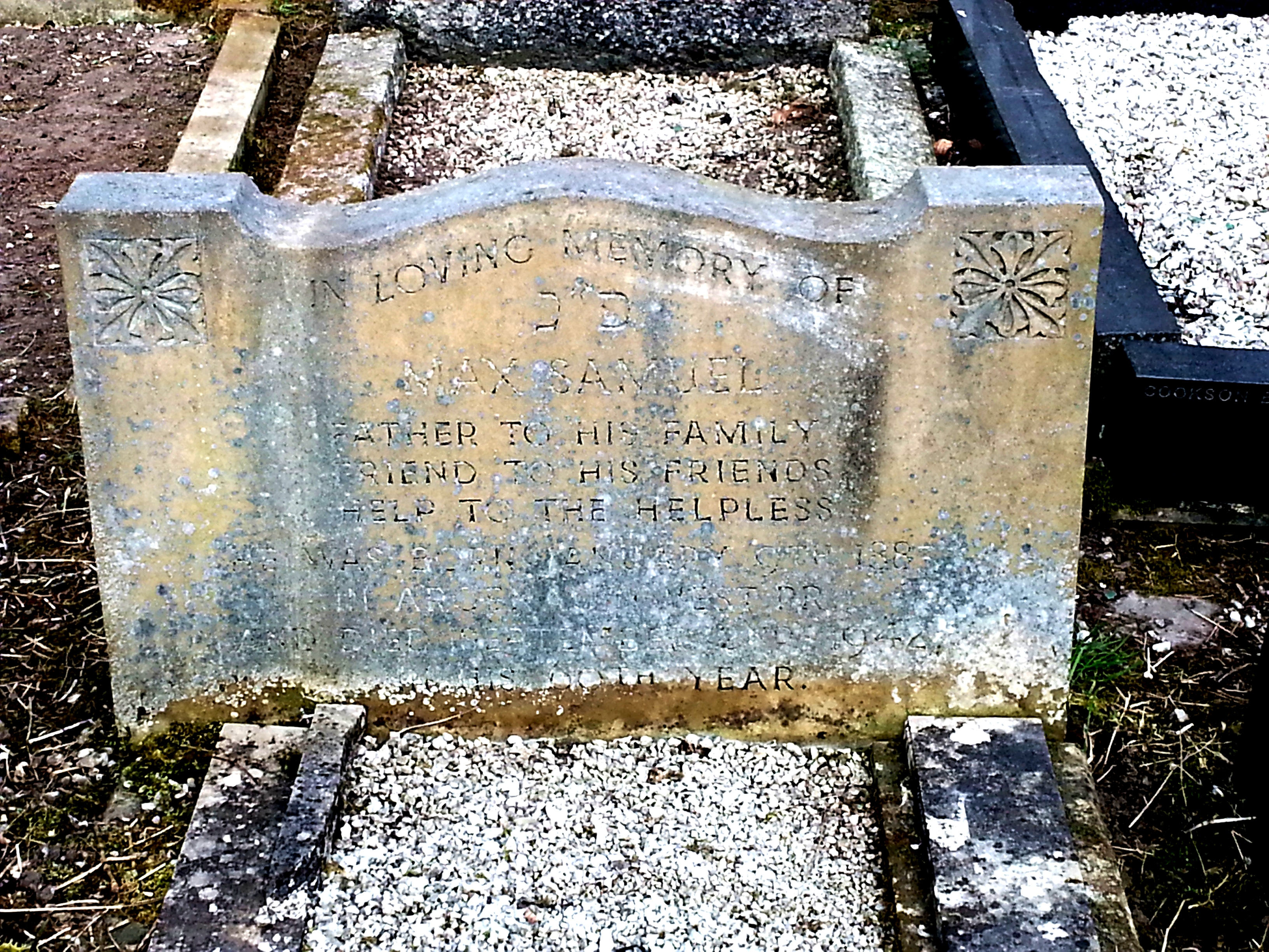 Grave of Max Samuel, born on 9 January 1883, né Itzig, in Argenau (Kuyavia), then Province of Posen, Kingdom of Prussia, Germany, as of 1888 Max Samuel, died on 2 September 1942 in Blackburn, Lancashire, England, Great Britain and Northern Ireland, in the Jewish section of the Blackburn Old Cemetery